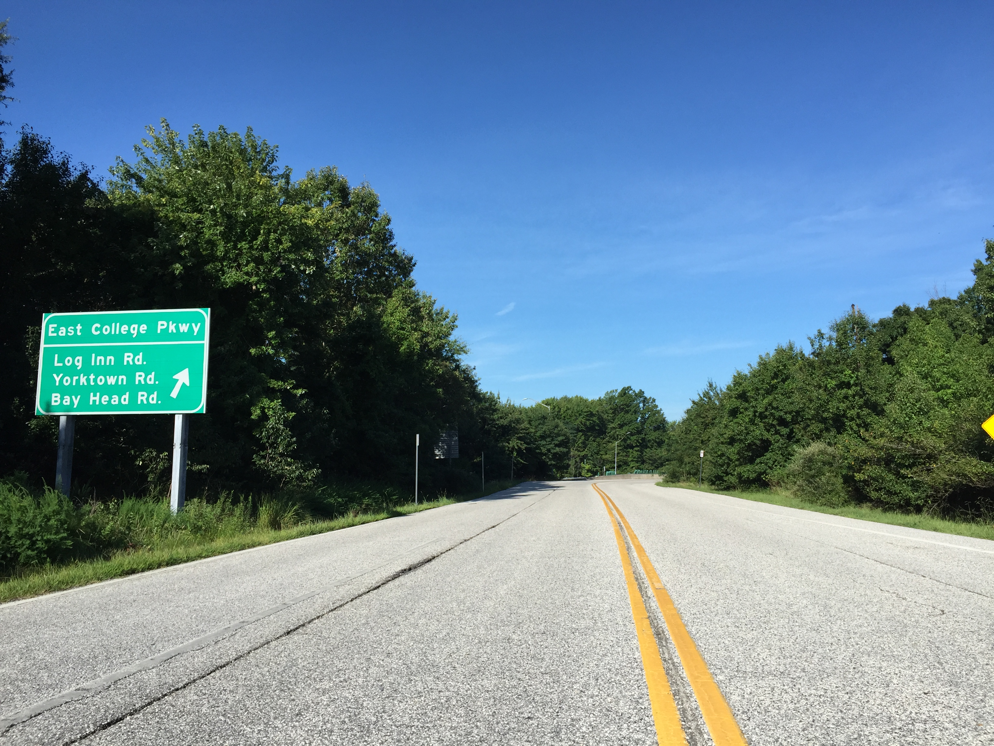 View west along Maryland State Route 908 (College Parkway) just west of the ramp to U.S. Route 50 west and U.S. Route 301 south (Blue Star Memorial Highway) in Skidmore, Anne Arundel County, Maryland